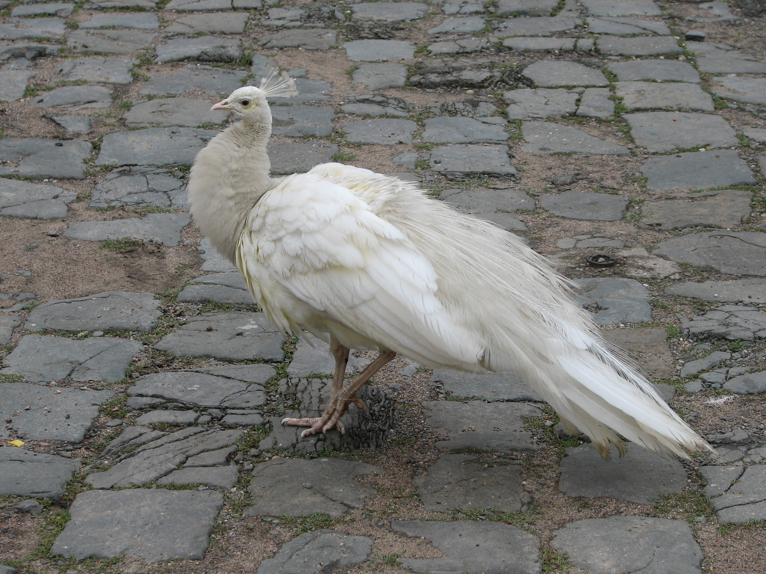 White Peafowl. Castle of Pardubice